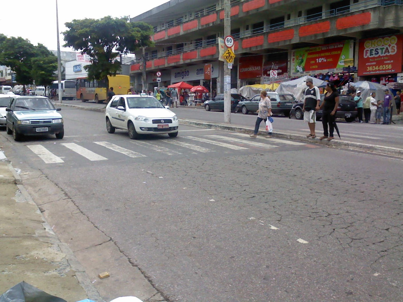 Brasilia Avenue in Santa Luzia, Minas Gerais.